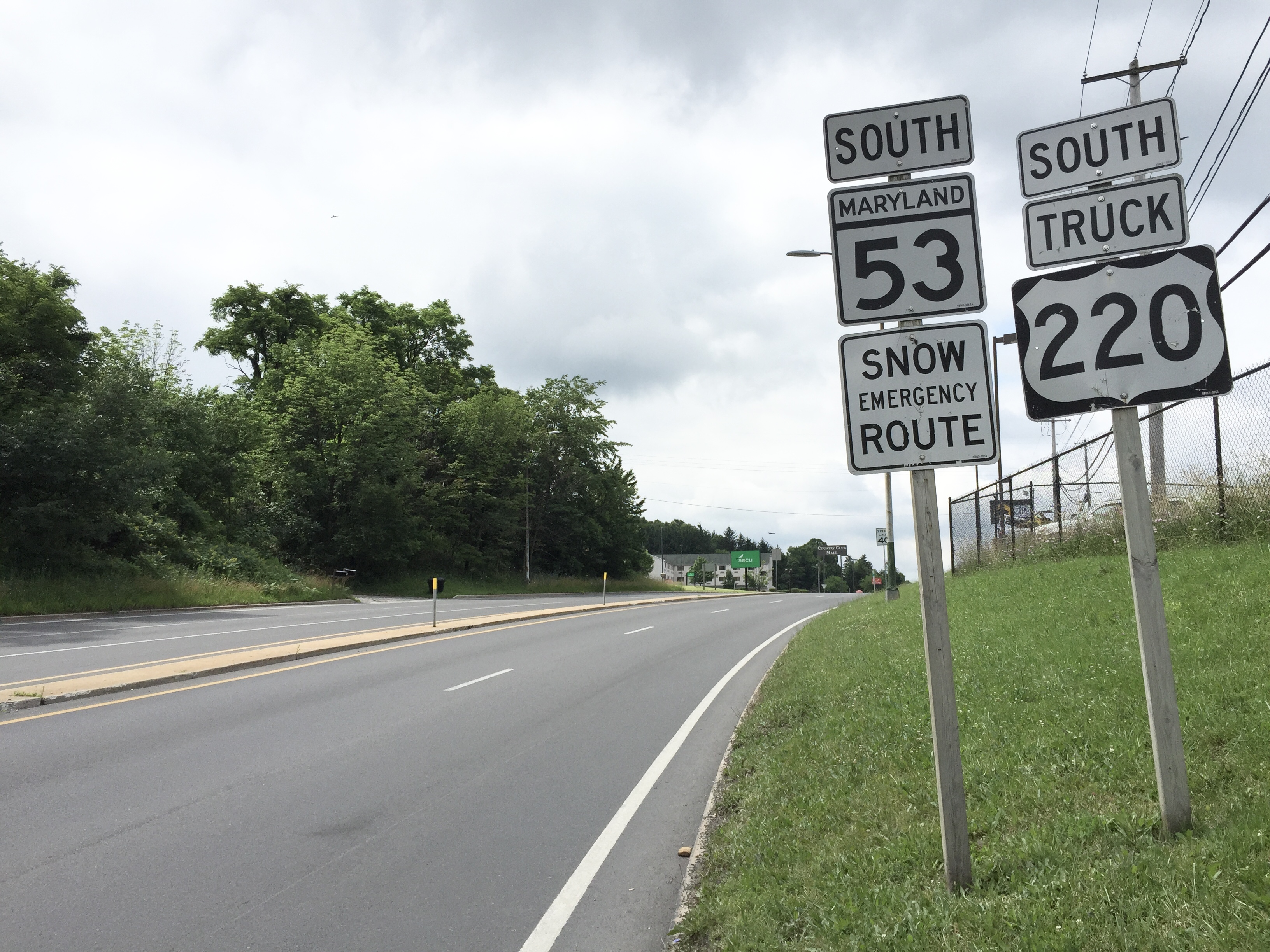 View south along Maryland State Route 53 and U.S. Route 220 Truck (Winchester Road) just south of Maryland State Route 658 (Vocke Road) in Winchester, Allegany County, Maryland